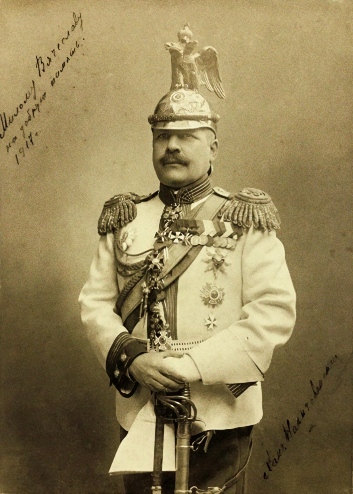 Adjutant General Huseyn Khan Nakhichevanski, 1863 - 1918